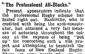 Excerpt from a page of the 1 June 1907 edition of the New Zealand Truth showing an article headlines "Professional All-Blacks."